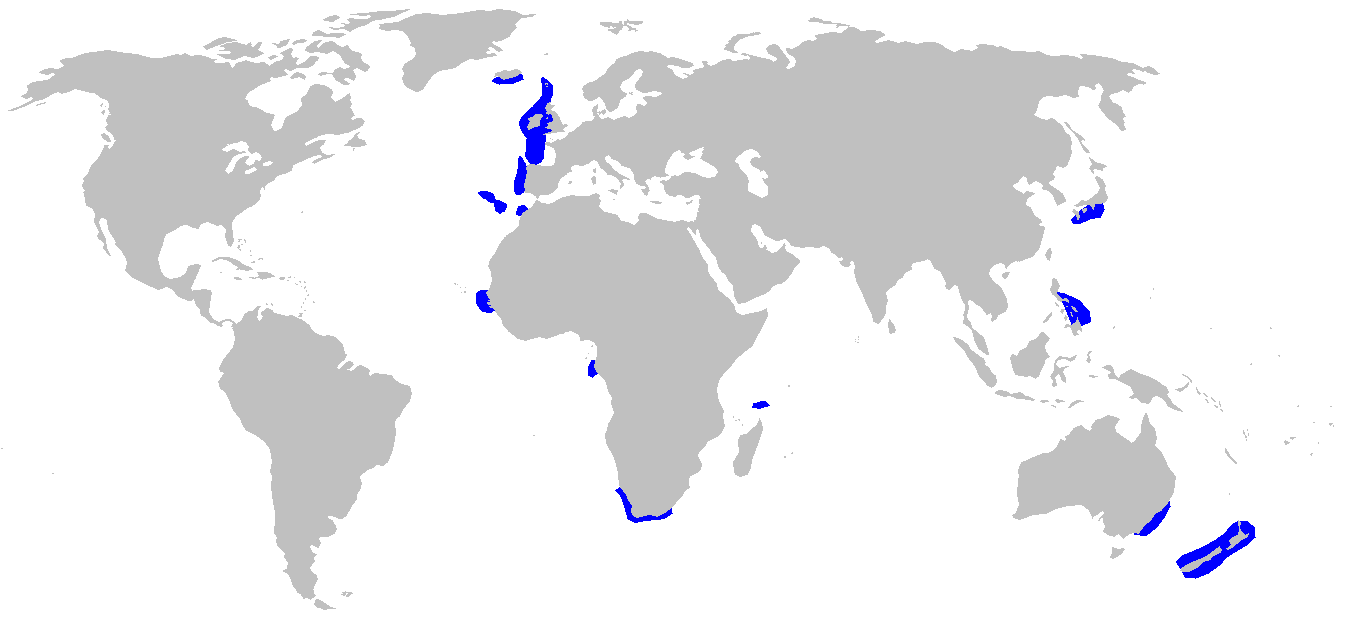 Distribution map for Centrophorus squamosus